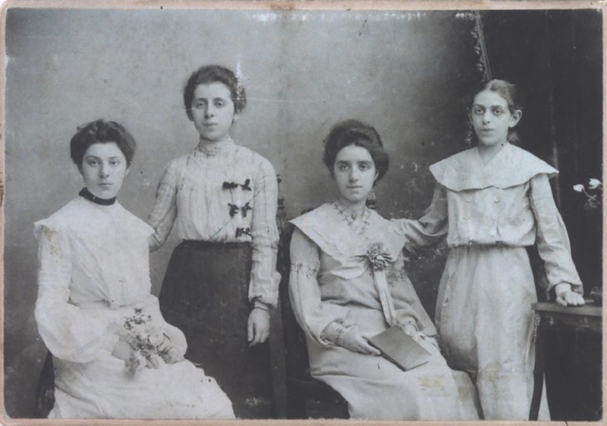 Clara, Else, Hedwig, Kaete